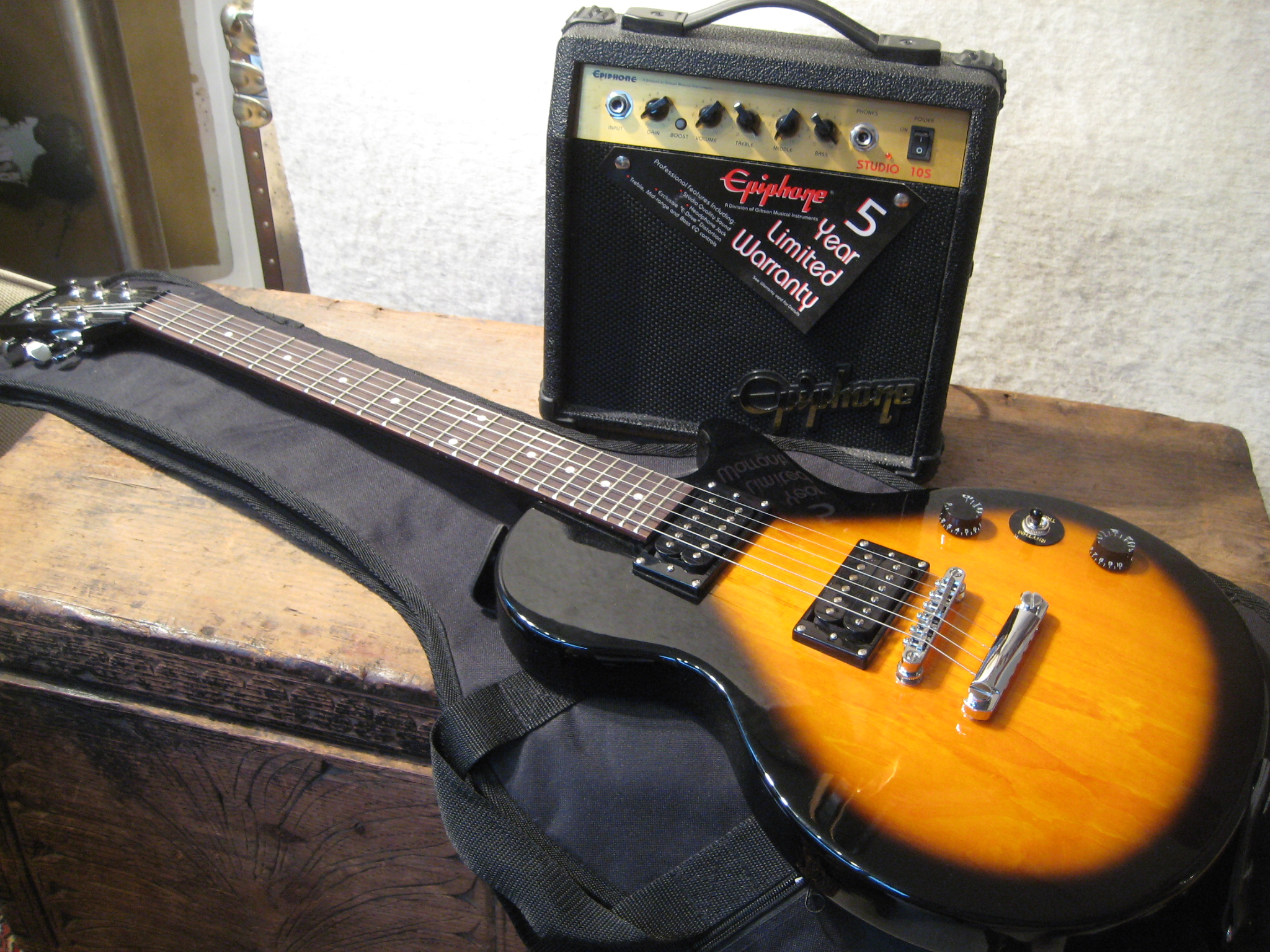 Guitar; Serial no. Epiphone Special II, SJ07060345, Epiphone, appears humbucker pick ups, chrome tone hardware, acrylic knobs, measures 13w x 1.5d x 39h, comes with soft gig bag Amp; Epiphone, measures 11w x 4.75d x 11.5, shallow for space constraints, a studio 10S, 19 watts, serial no. BC07073310, small kick stand at the back to tilt up All proceeds help us continue the fight against HIV/AIDS and homelessness